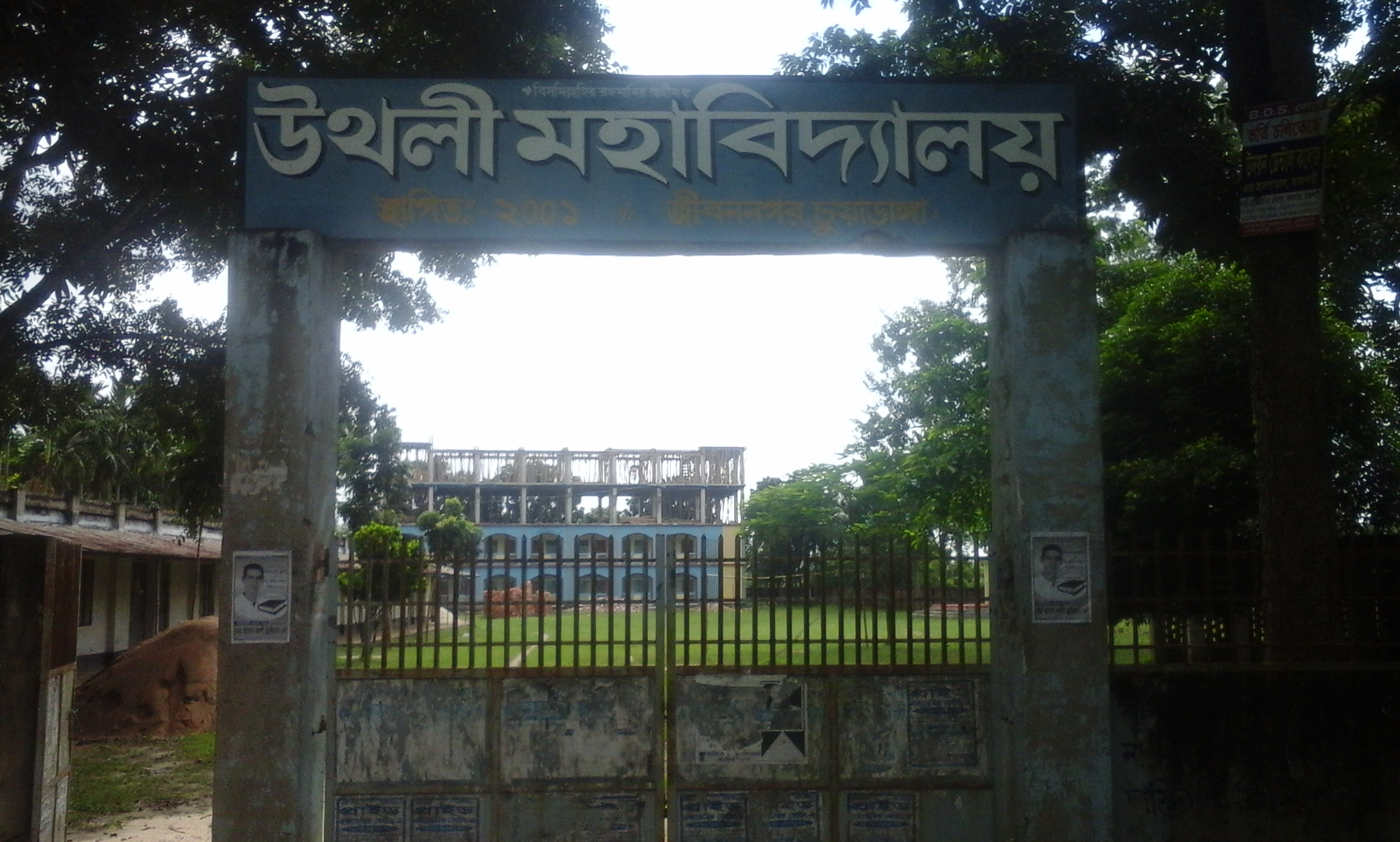 Front gate of Uthali College.